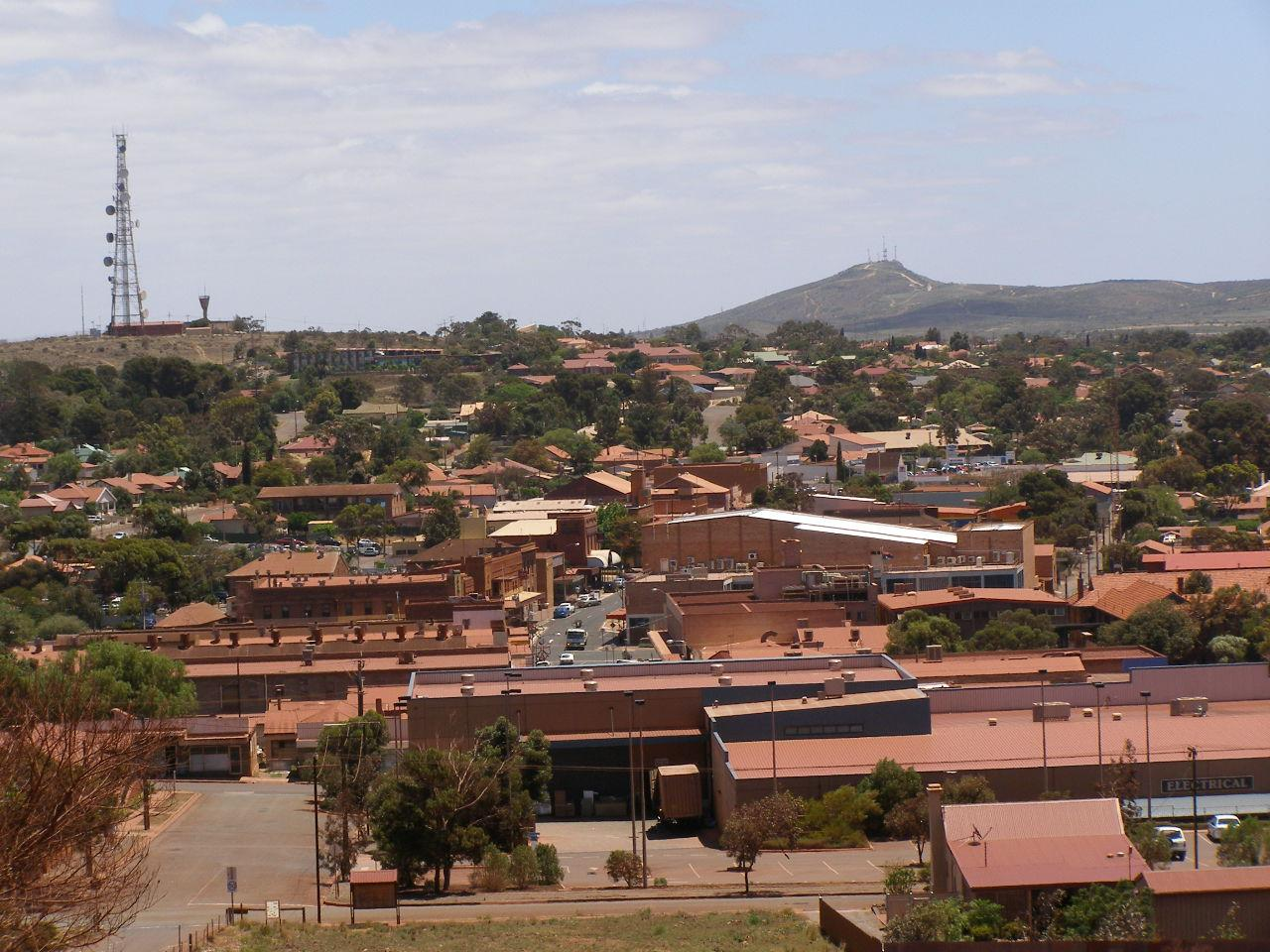 View across Whyalla from the Hummock Hill lookout, Whyalla, South Australia